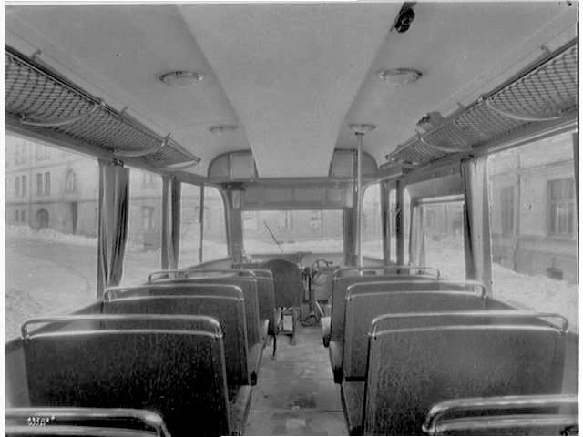 A Gullfisk tram interior in Oslo, Norway